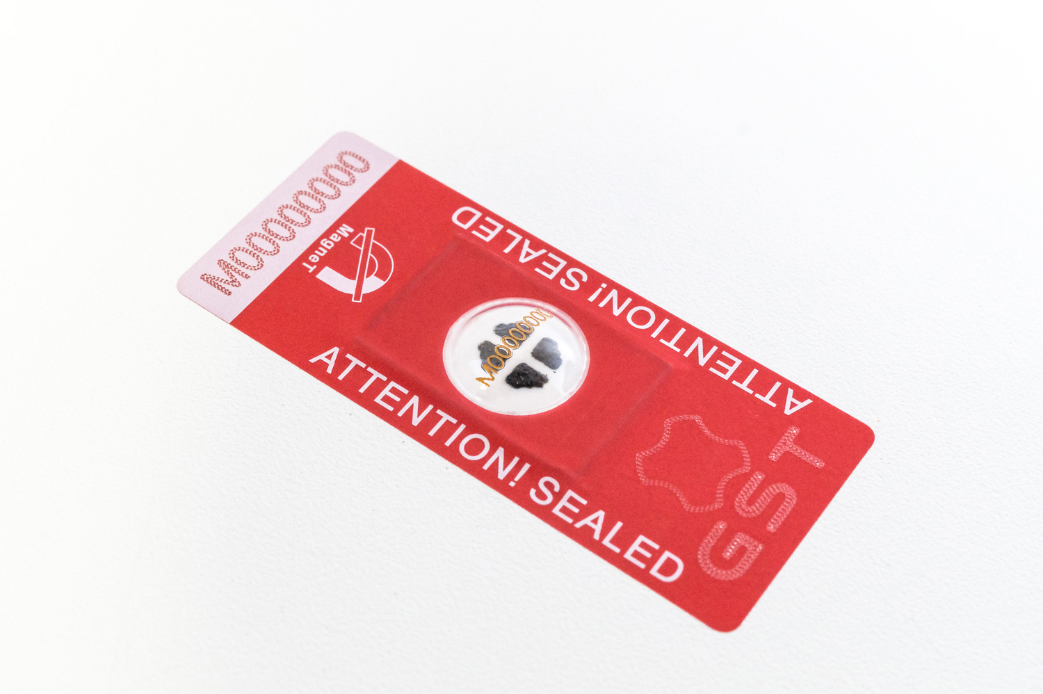 gstantimagseal